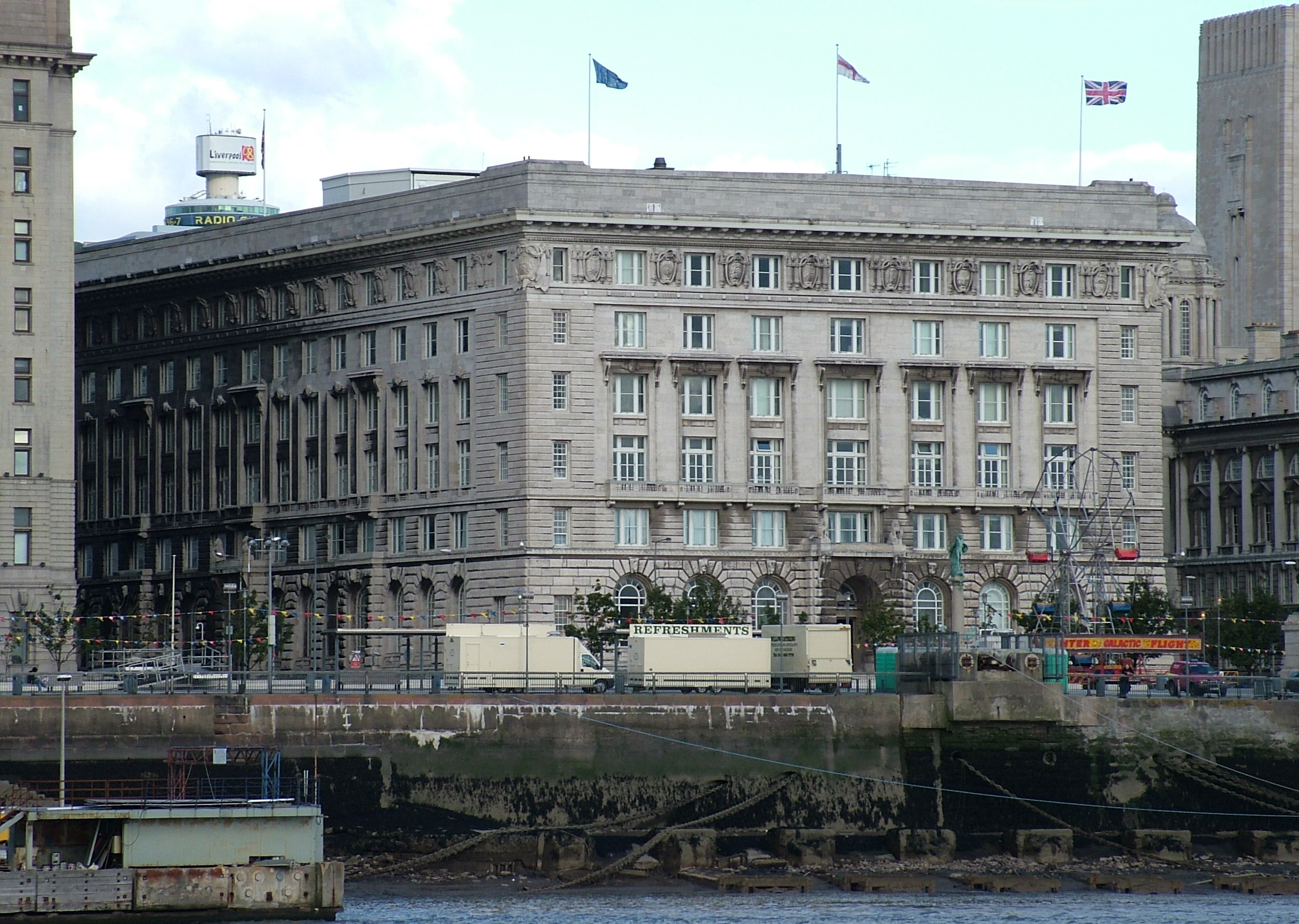 Cunard Building. Taken by Chris Howells, September 2005.